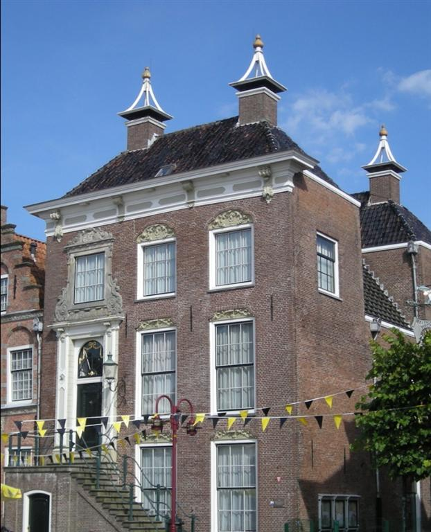 town hall city of Workum, Community Nijefurd, Province Frisia, Netherlands